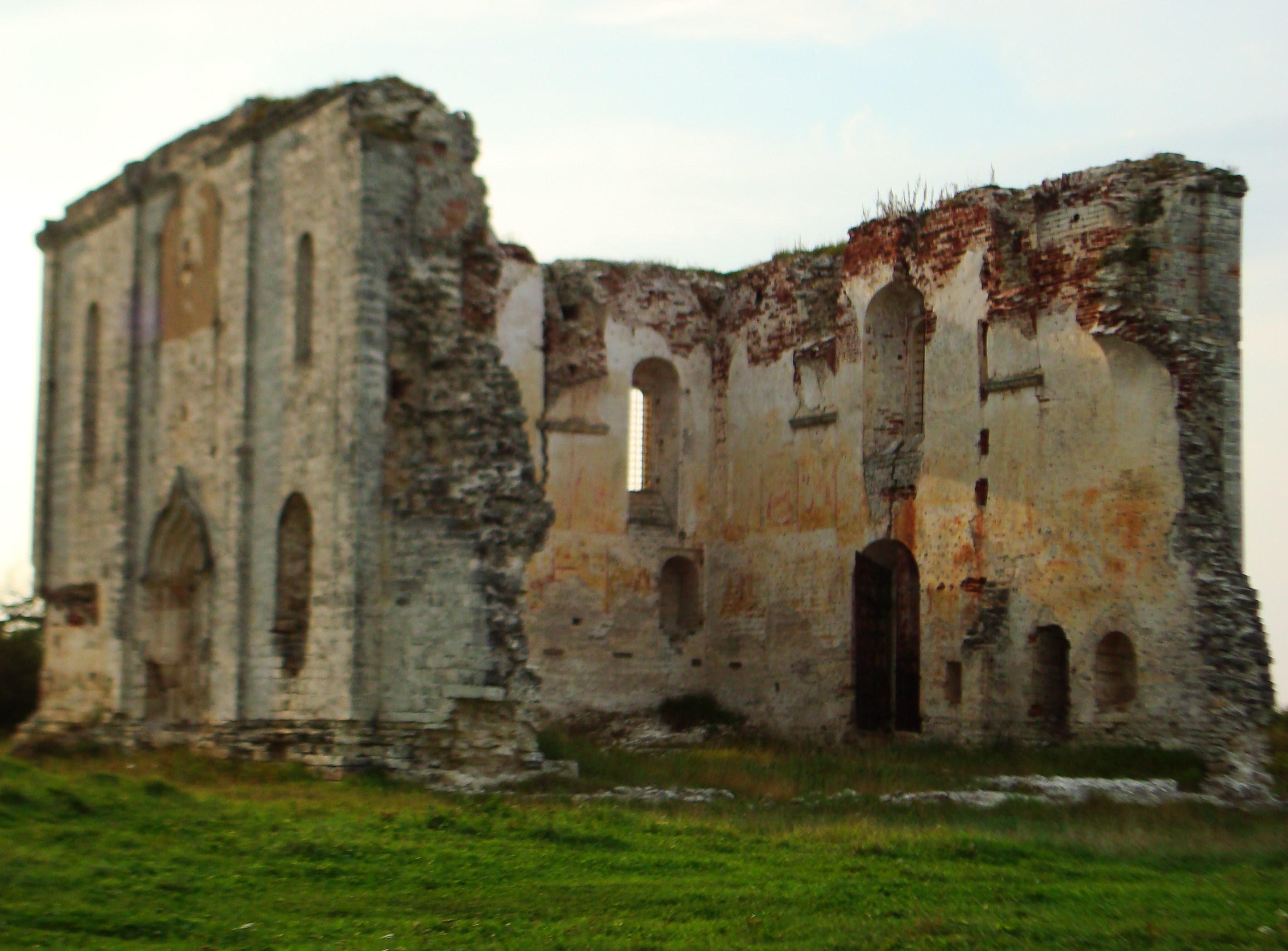 St. Nicolas Cathedral, The Antoniev monastery of St. Nicholas 1481-1493